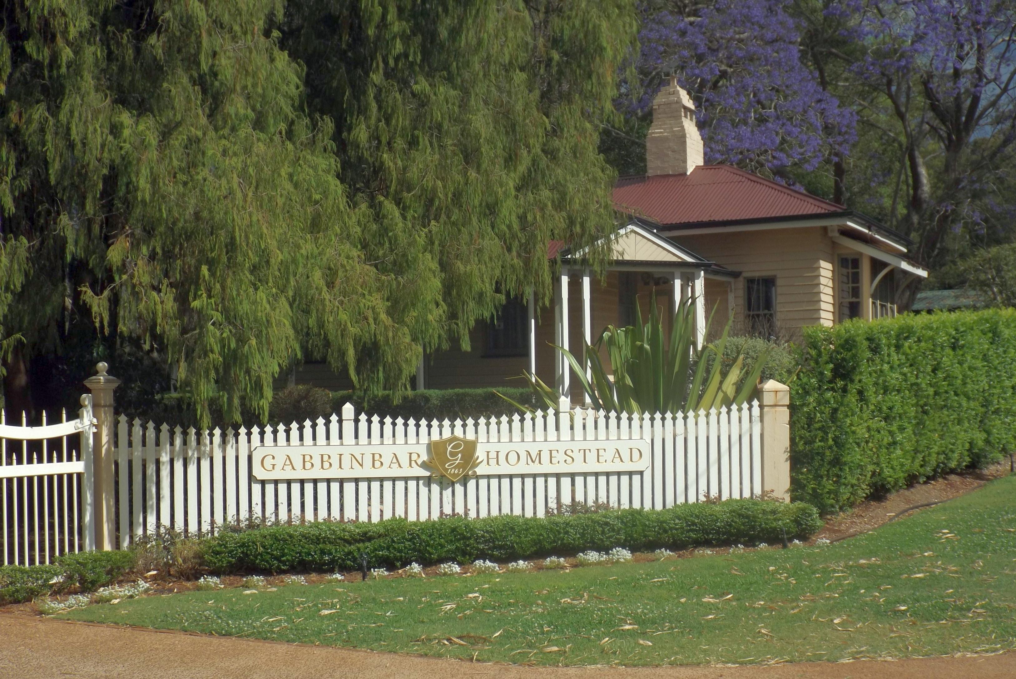 Photo of signage, gardens and Gabbinbar Homestead in Ramsay Street, Middle Ridge Toowoomba, Queensland, Australia.